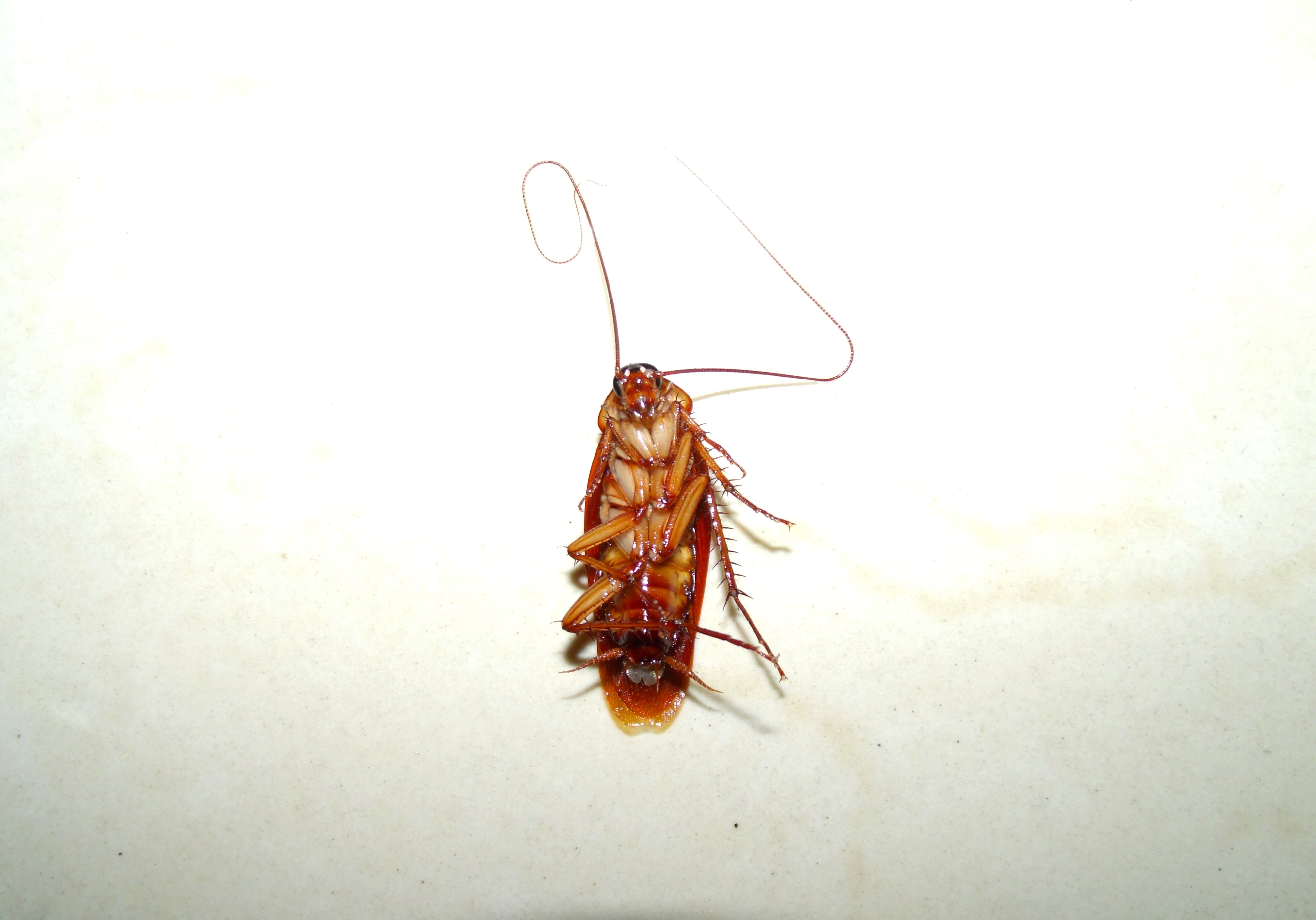 Unidentified Blattodea that I found in the floor.